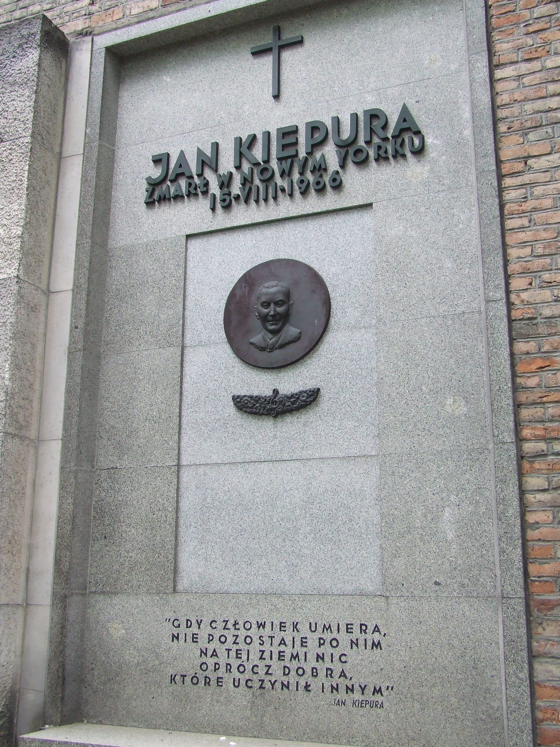 Grave of Polish singer Jan Kiepura